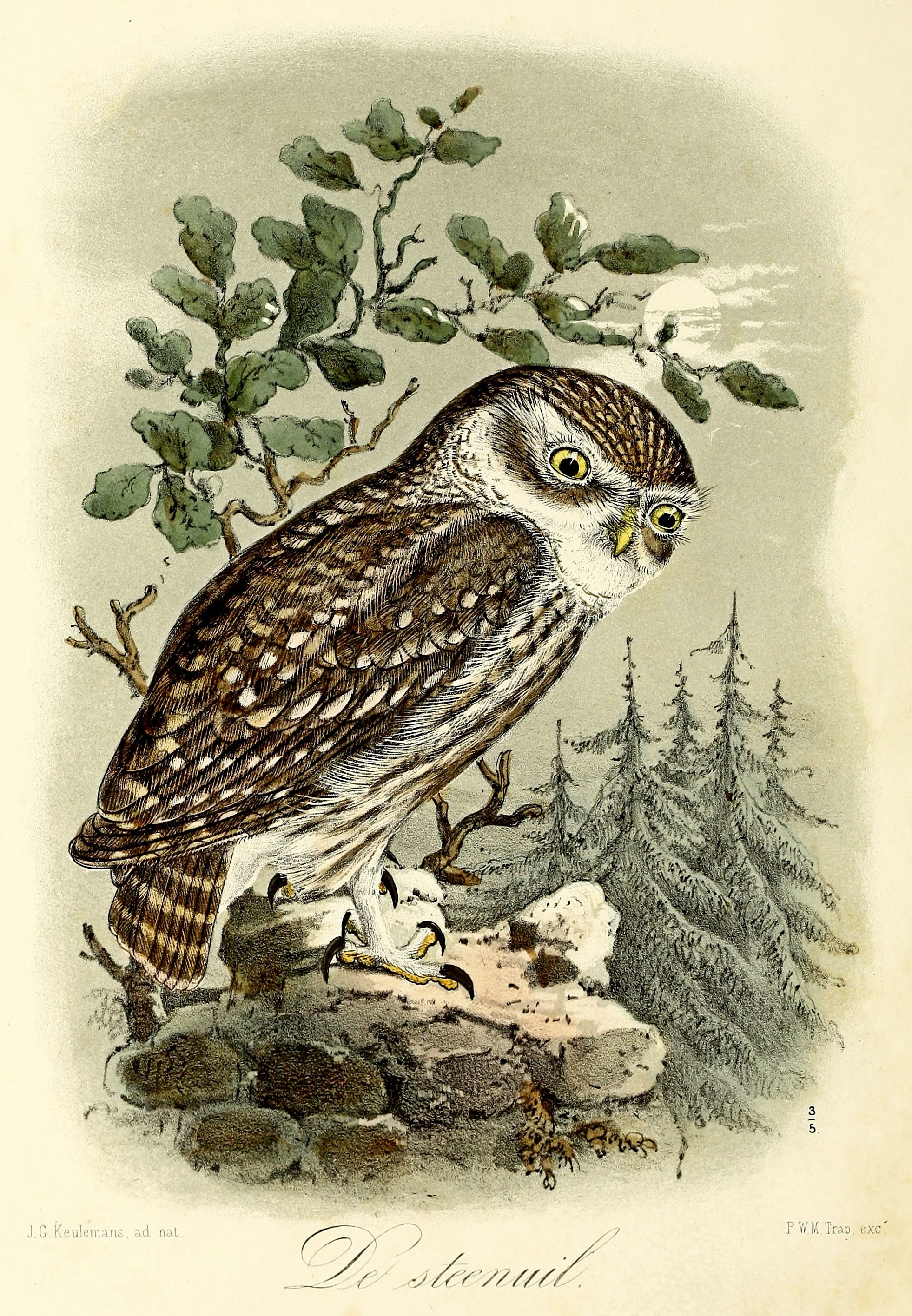 « Strix noctua » = Athene noctua (Little owl)